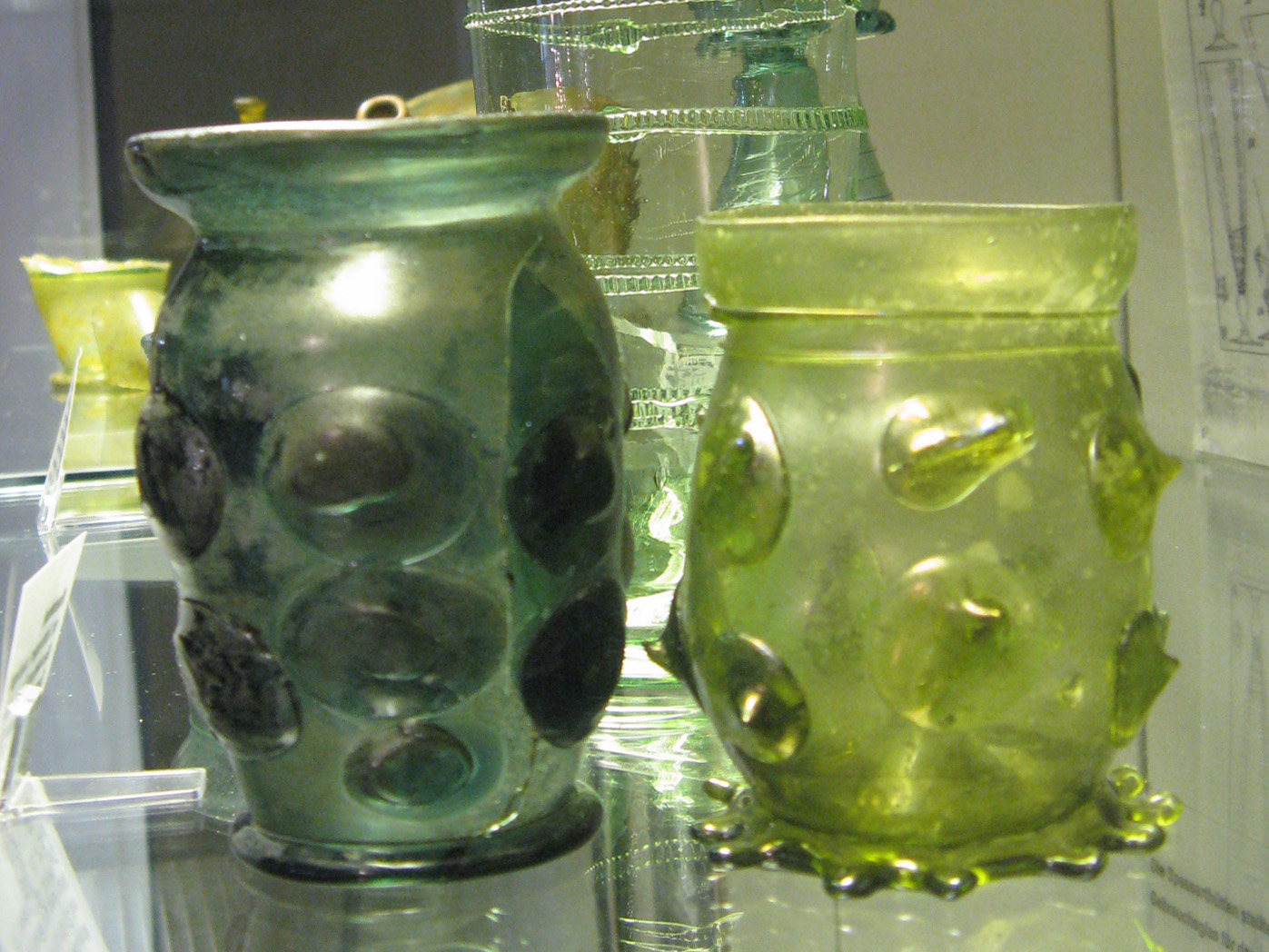 Glasmuseum Wertheim: Vetro medievale locale